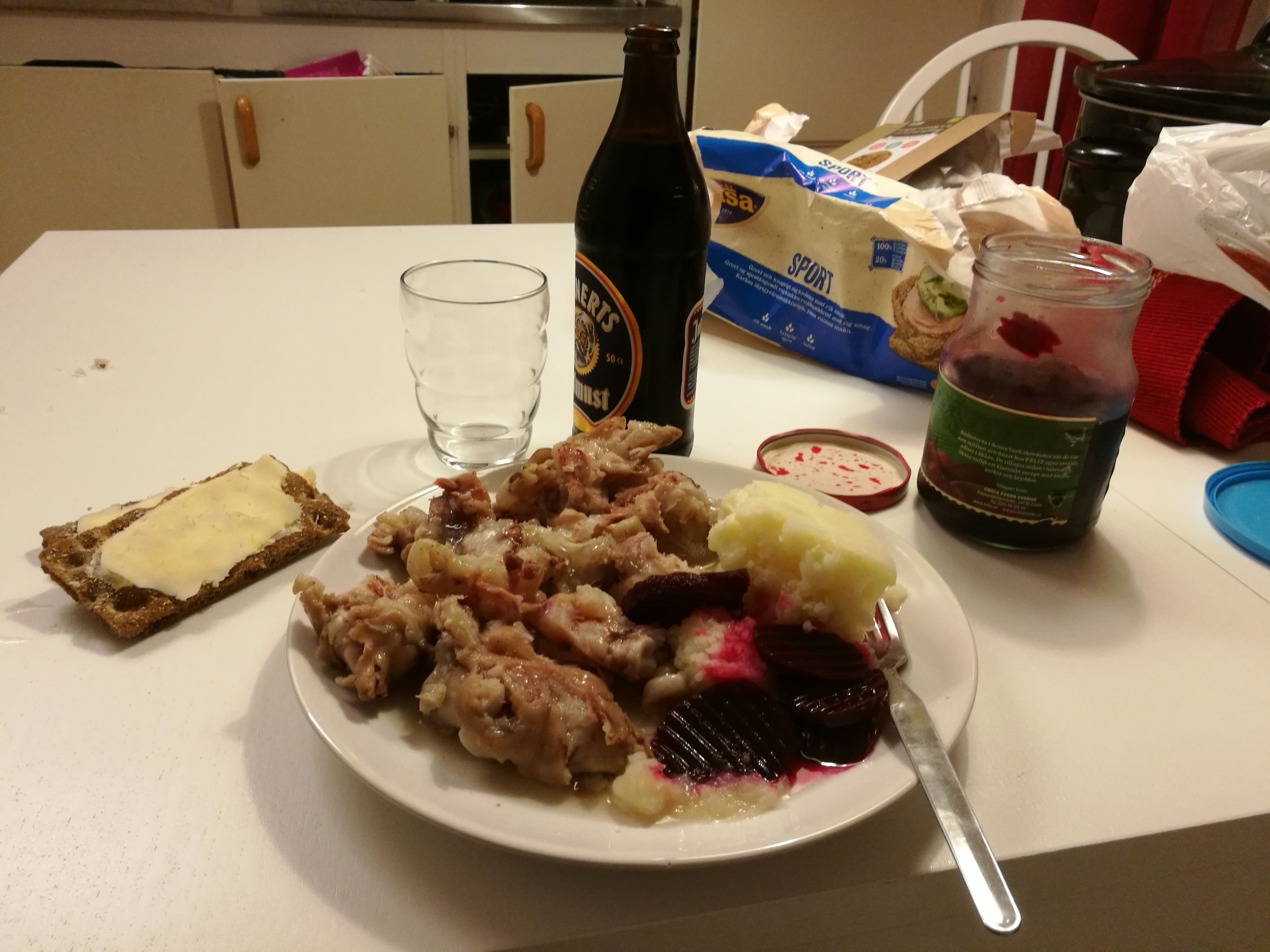 Traditional swedish christmas dish. Boiled pigs feet that has cooled in its own juice, creating natural jelly. Eaten with potatoes and beetroots in vinegar.